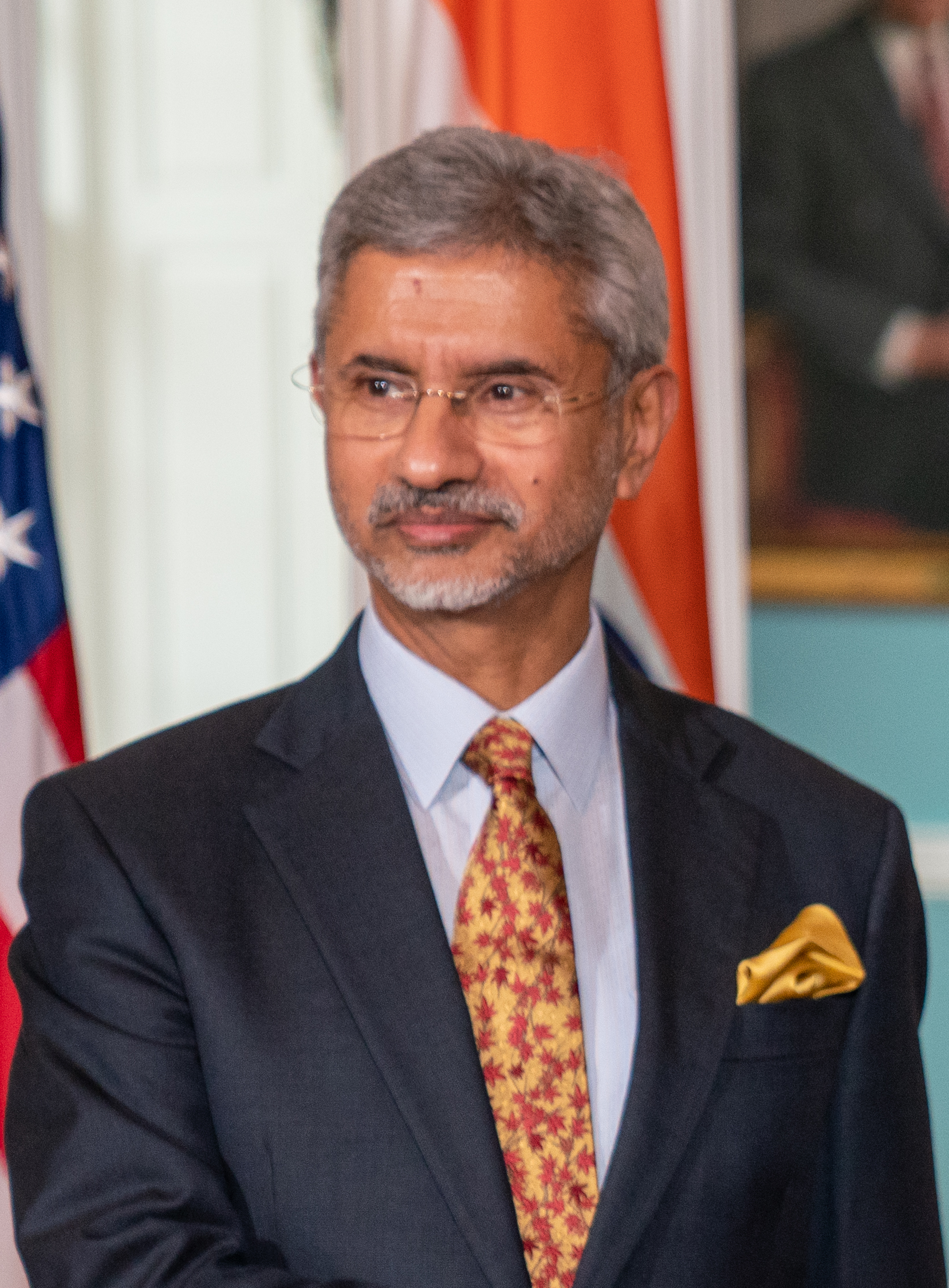 U.S. Secretary of State Michael R. Pompeo shakes hands with Indian Minister of External Affairs Subrahmanyam Jaishankar during a bilateral meeting at the U.S. Department of State in Washington, D.C. on September 30, 2019 [State Department photo by Ron Przysucha/Public Domain]